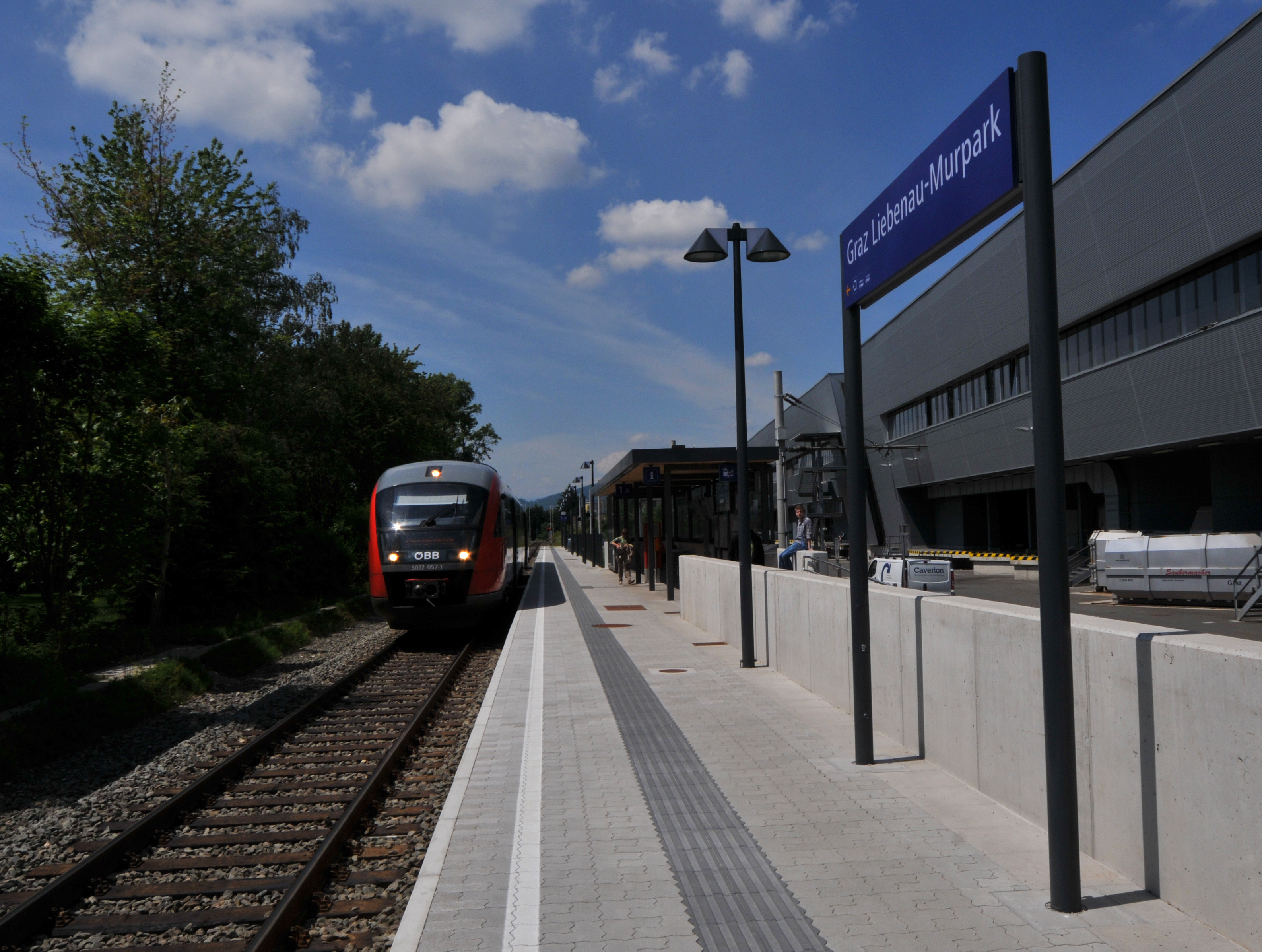 Train Station "Graz-Murpark", Styria, Austria